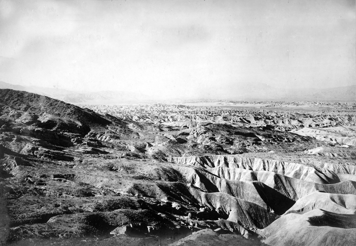 Old Miocene beach as seen from sandstone ridge at Garnet Canyon. Shows yellow shales cut into bad lands in upper valley creek. San Diego County, California. ca 1905.